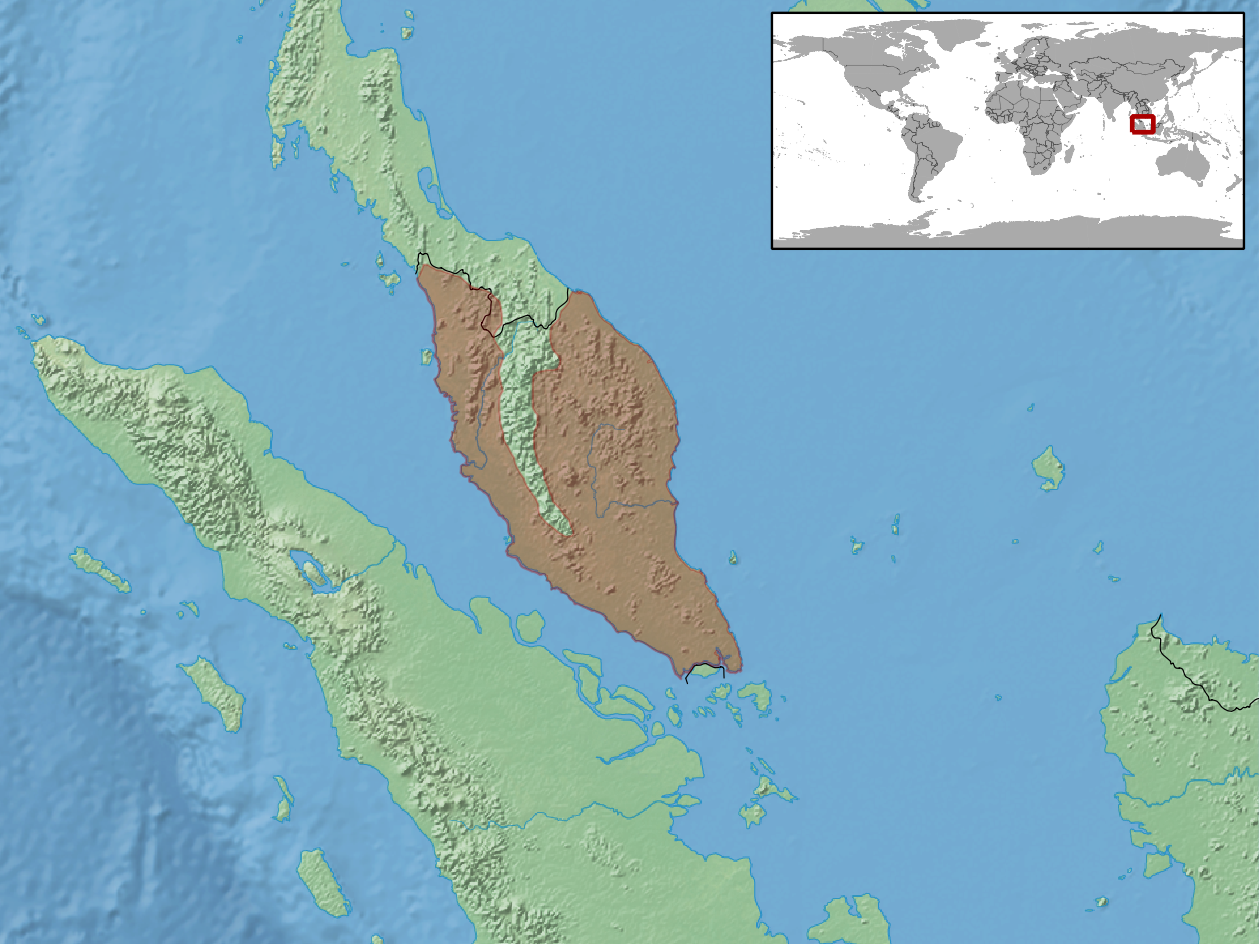 geographic distribution of Cyrtodactylus sworderi (Native: Malaysia (Peninsular Malaysia))